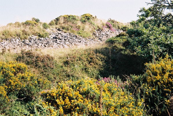 Moretonhampstead: Cranbrook Castle. Remains of 2m high stone-faced rampart partly enclosing an area of 2.8 hectares. The defences of this Iron Age hill fort were never completed